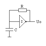 Relaxation Oscillator